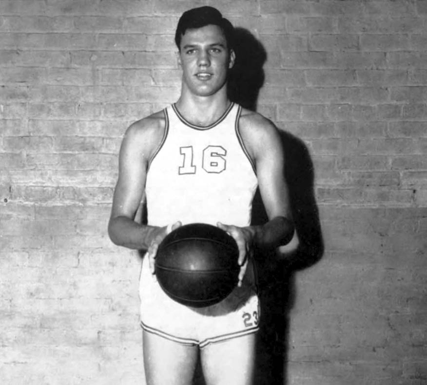 American college basketball player Bill Henry of Rice University during the 1944-45 season